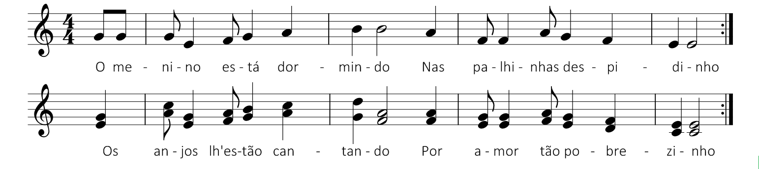 O Menino está dormindo (Infant Jesus is Sleeping) a well known Portuguese Christmas Carol from Évora, Portugal.